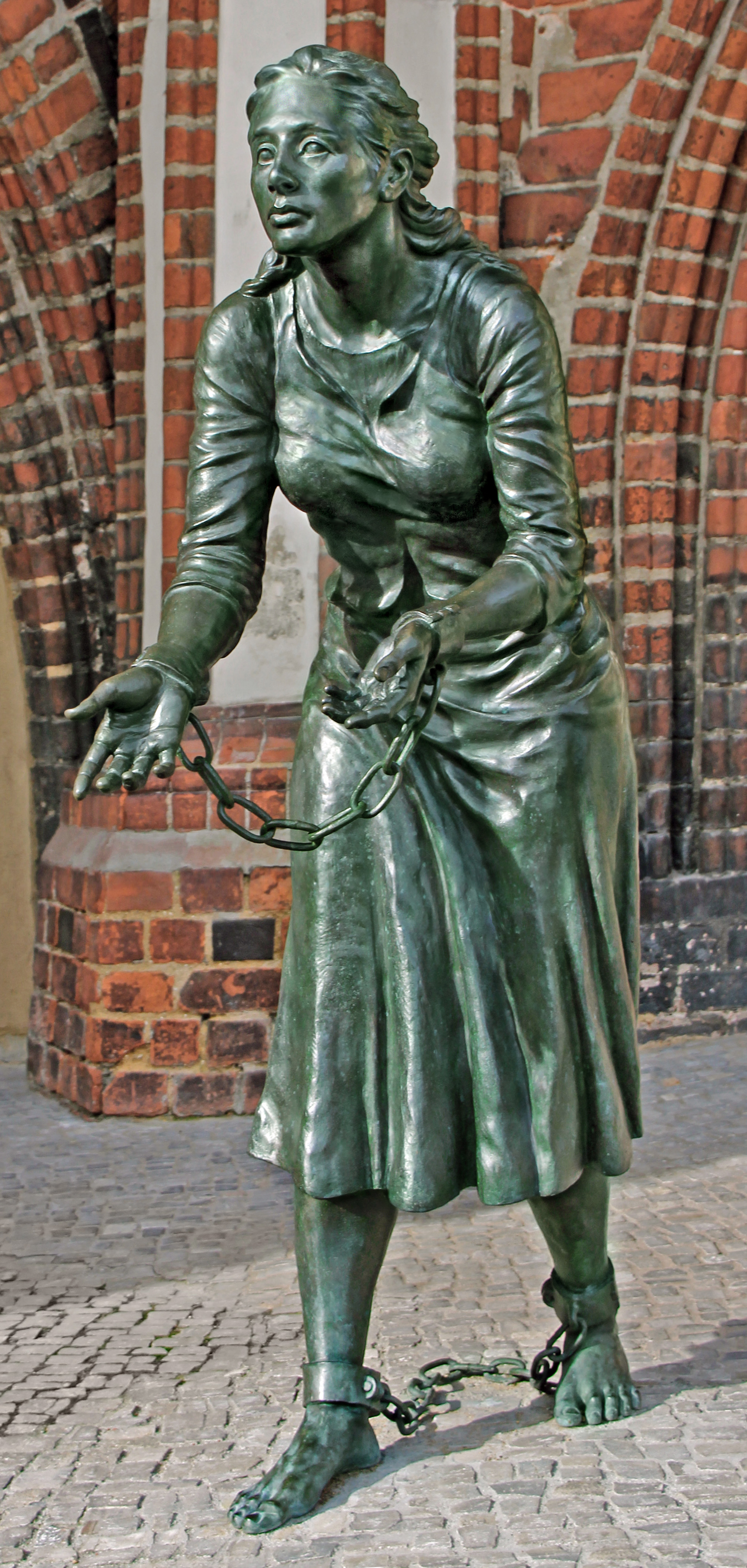 Monument to Grete Minde (bronze), created by sculptor Lutz Gaede, erected in 2009 in front of the historical town hall in Tangermuende